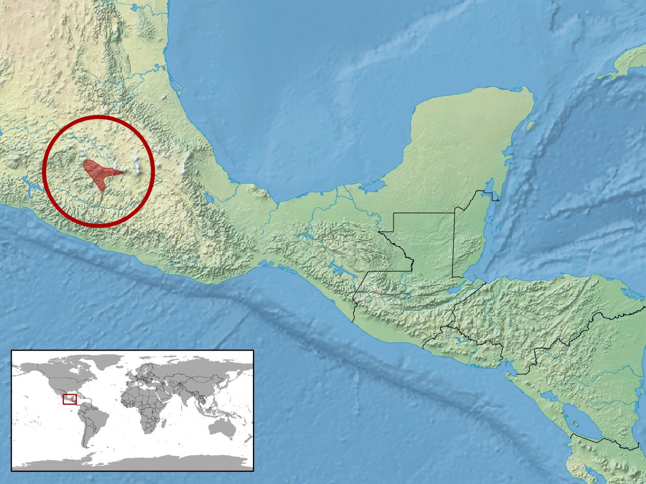 geographic distribution of Abronia deppii (Native: Mexico)